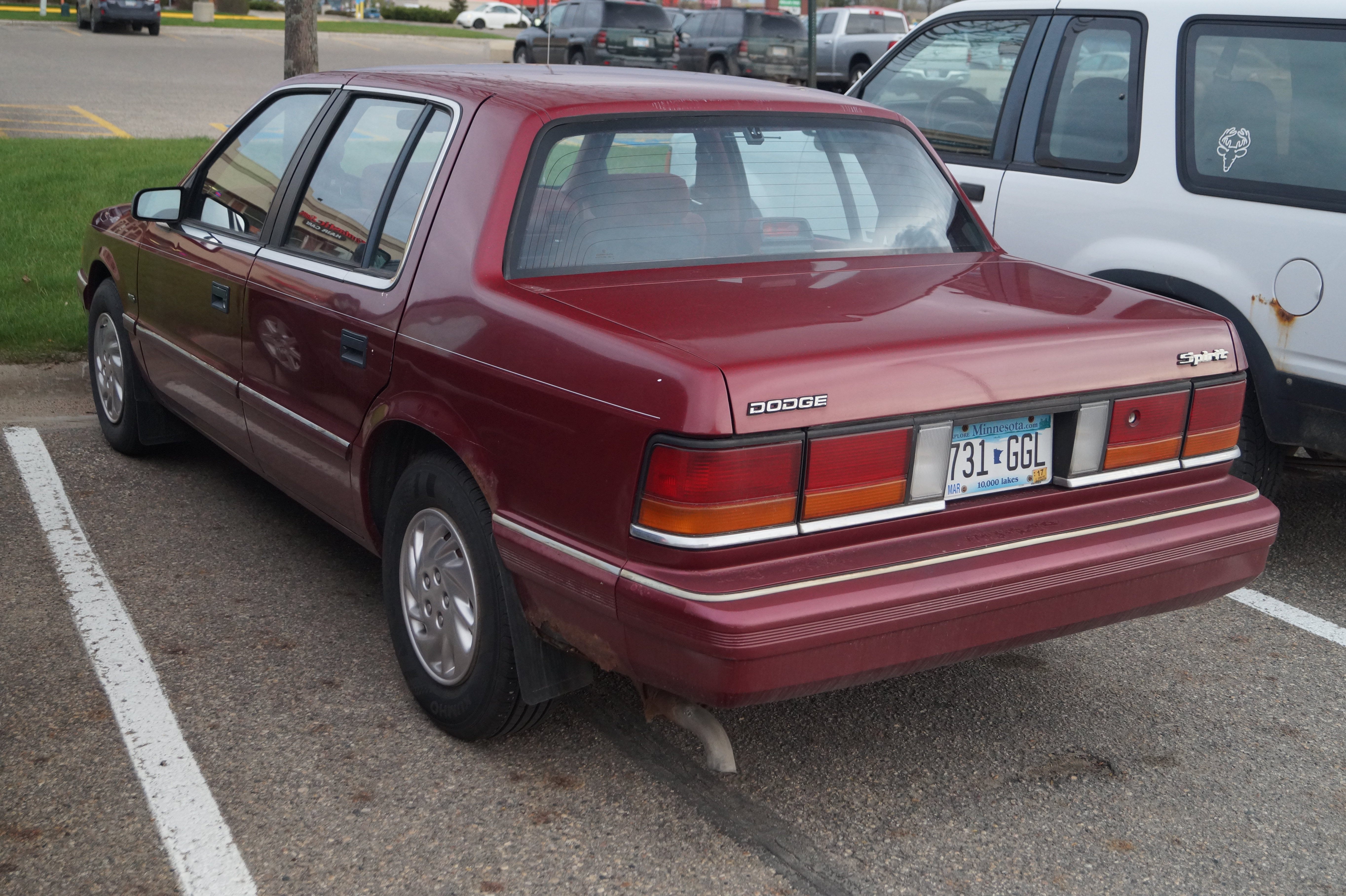 Click here for more car pictures at my Flickr site.